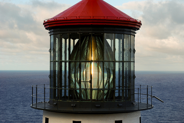 Makapu'u Lighthouse, Oahu Hawaii